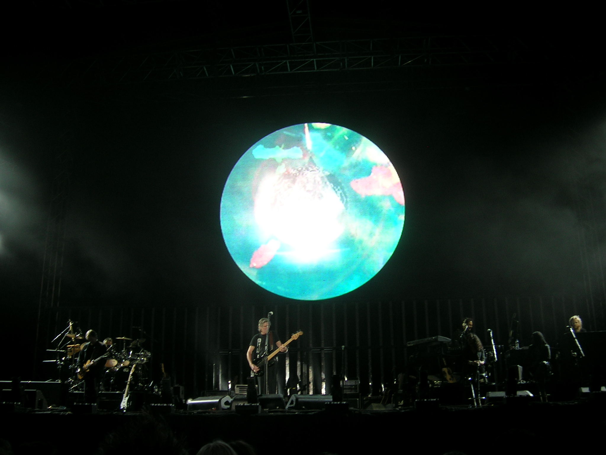 Roger Waters playing "Money" on the "Dark Side of the Moon live" tour in Viking Stadion, Stavanger, Norway.